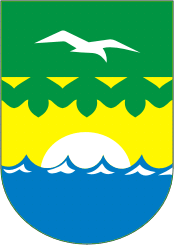 Zelenogorsk (St. Petersburg), coat of arms (2000)